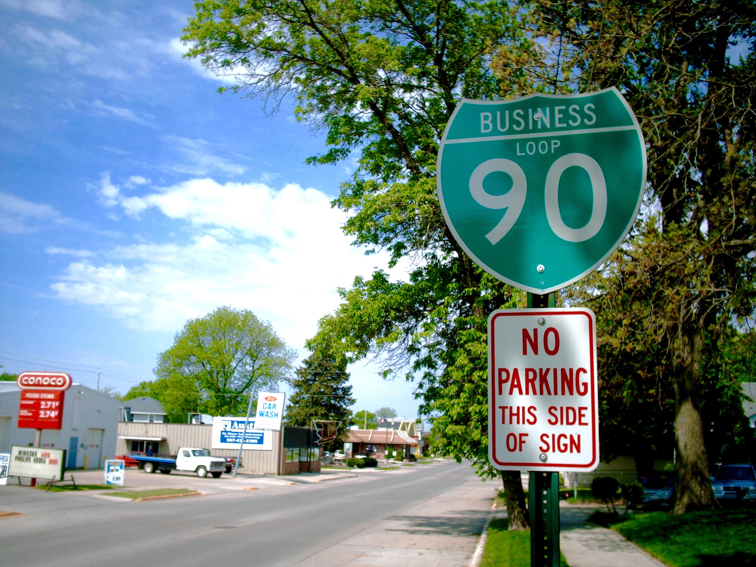 Photo I took 2006-05-20 on Interstate 90 Business Loop in Austin, Minnesota. CC & GFDL.